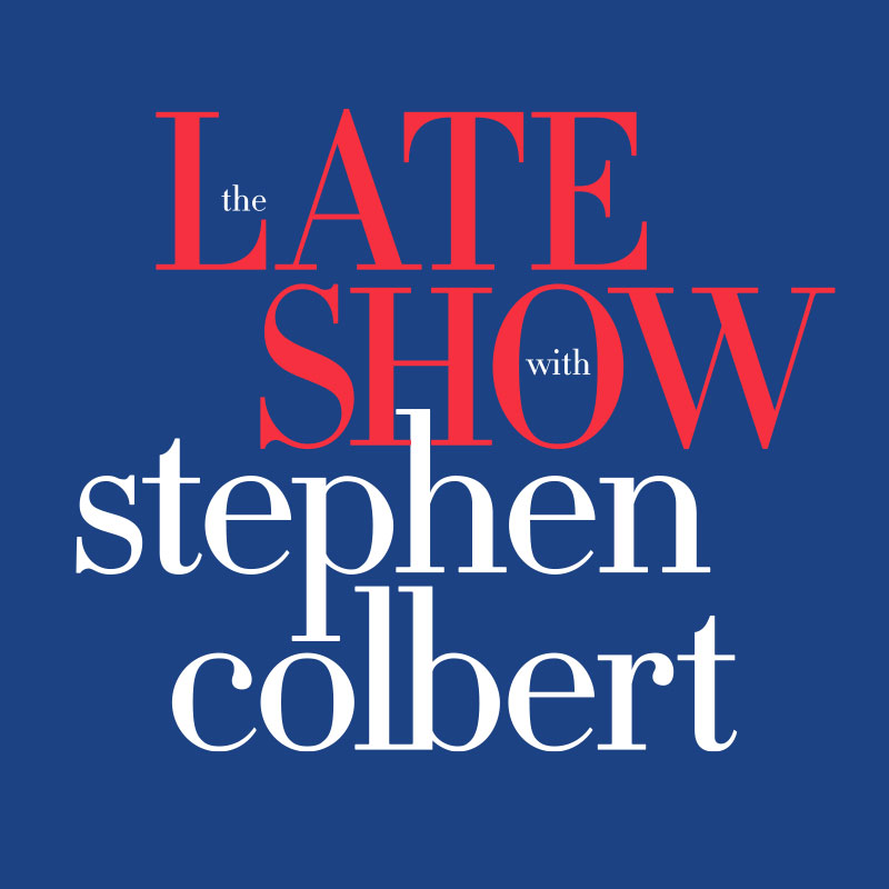 Logo for The Late Show with Stephen Colbert, an American TV-program.